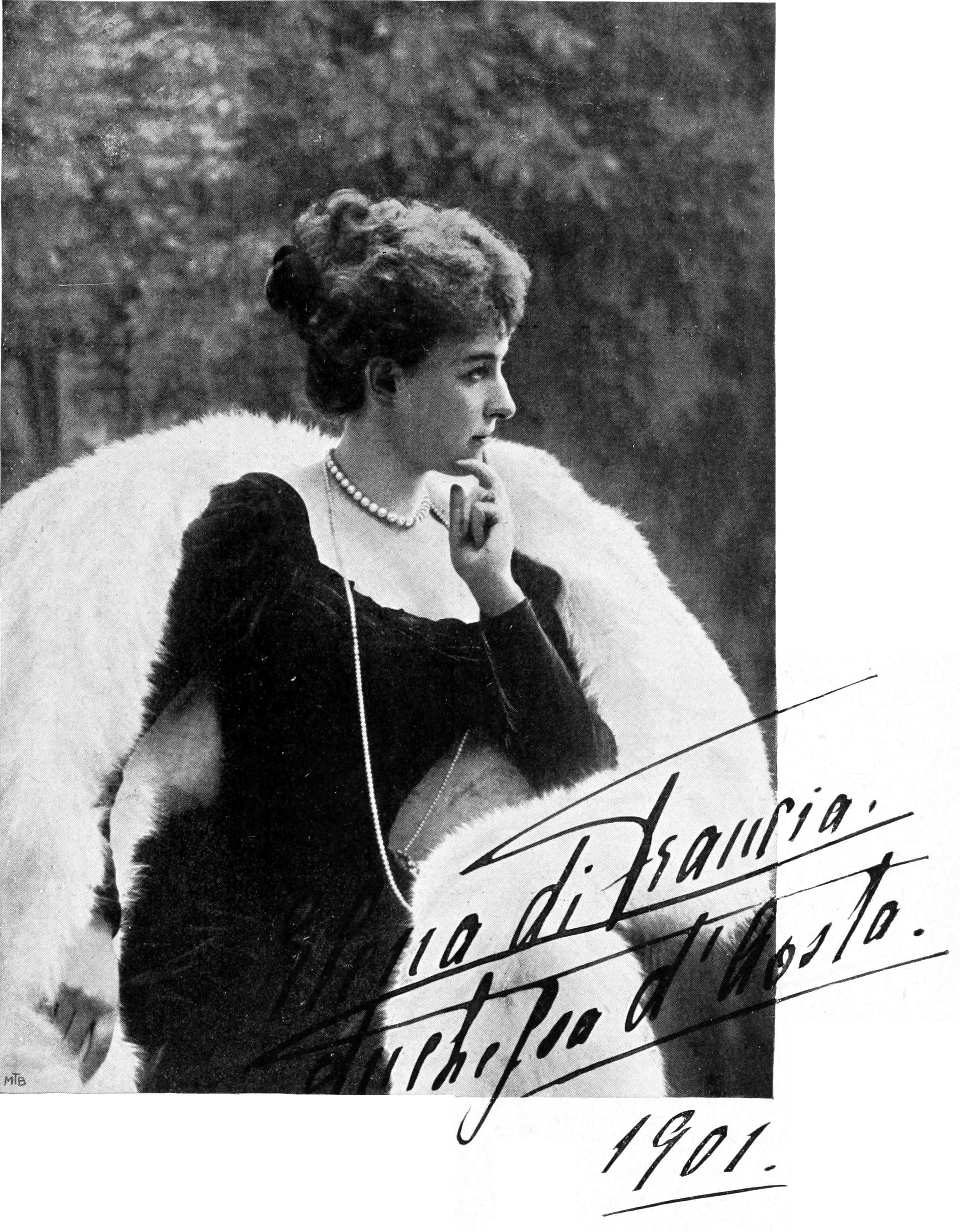 Image from book: Leopoldo Pullè, Patria Esercito Re, Ulrico Hoepli, Milan, 1908. - Hélène of Orléans, Duchess of Aosta